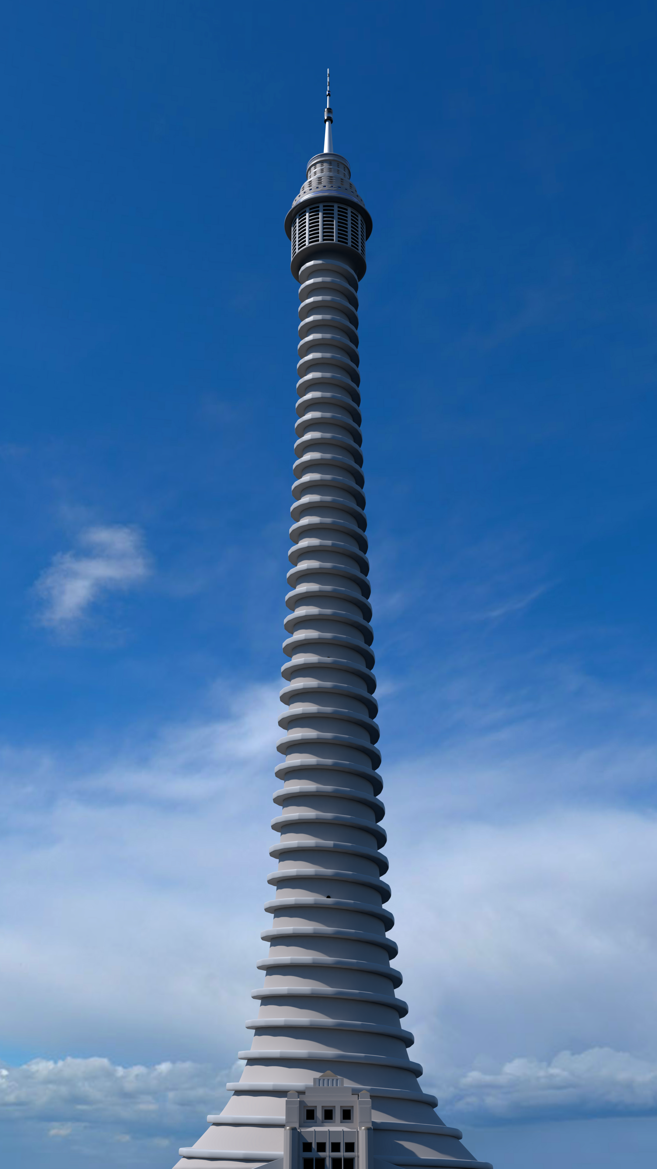 3D model of the "Lighthouse of the World", done with Blender 2.79b